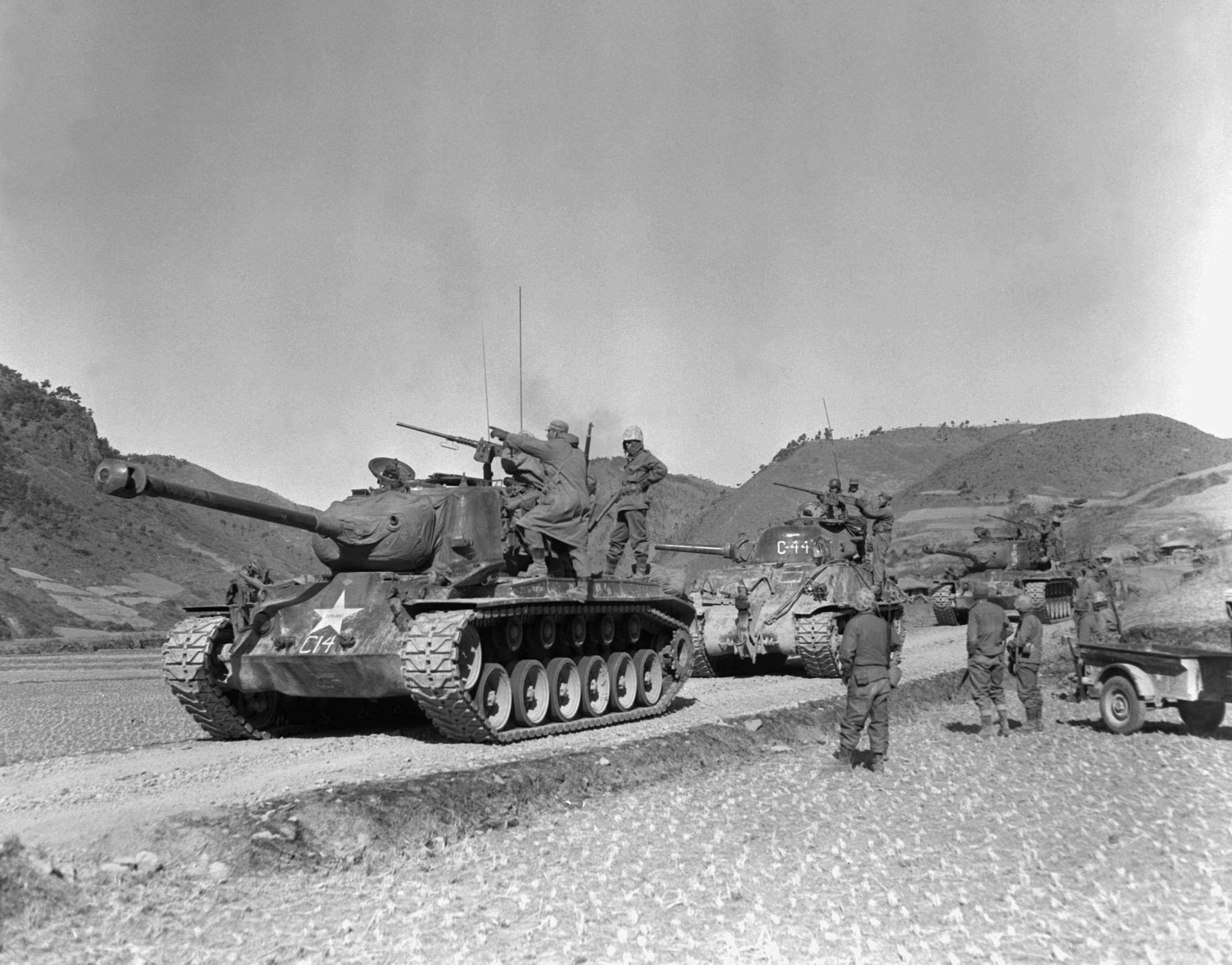 Tank-led patrol of Leathernecks hunts down North Korean guerrillas somewhere in Mountainous region of Korea. NARA FILE #: 127-GK-234B-A6076